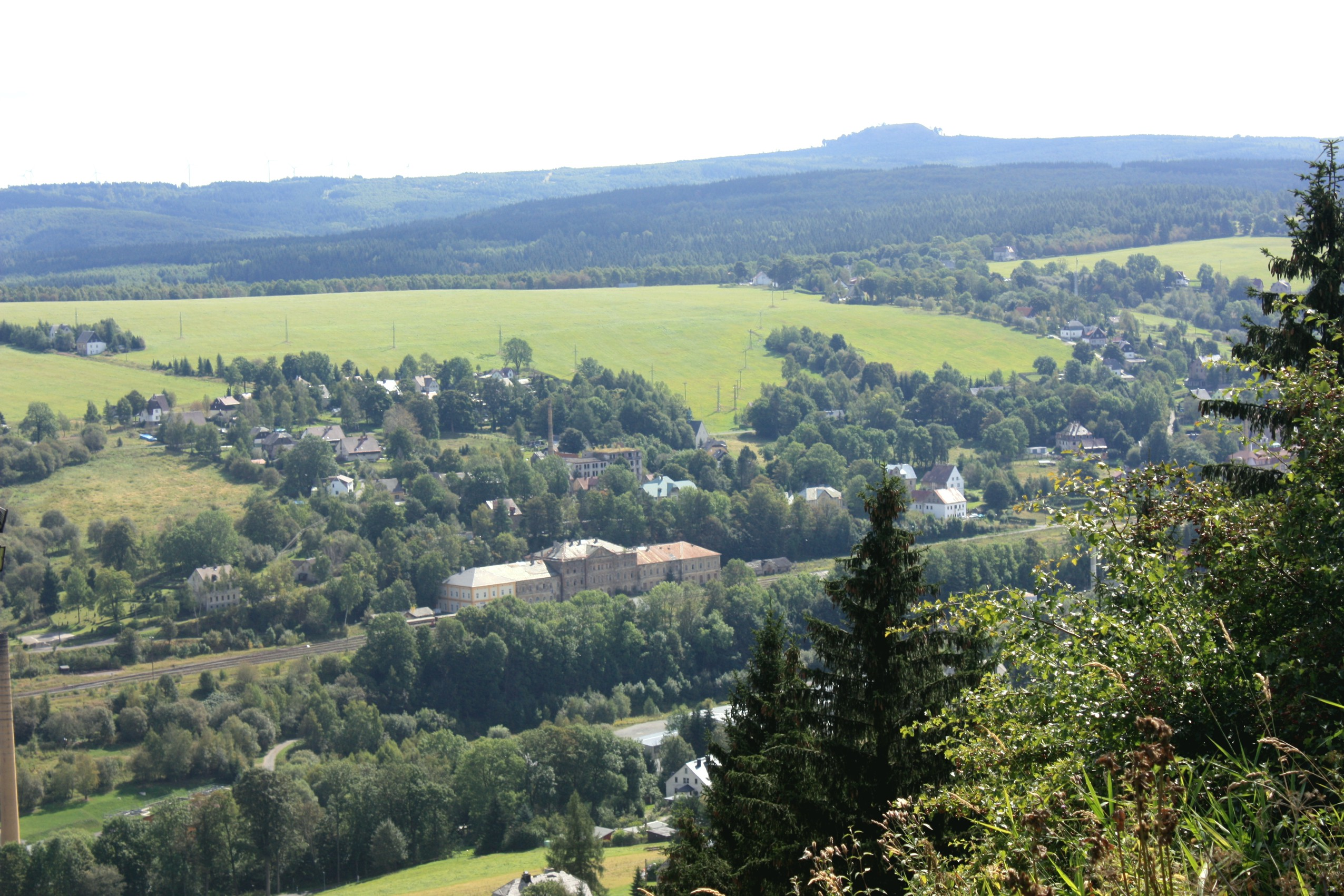 Bärenstein, view from Bärenstein to the railway station Vejprty